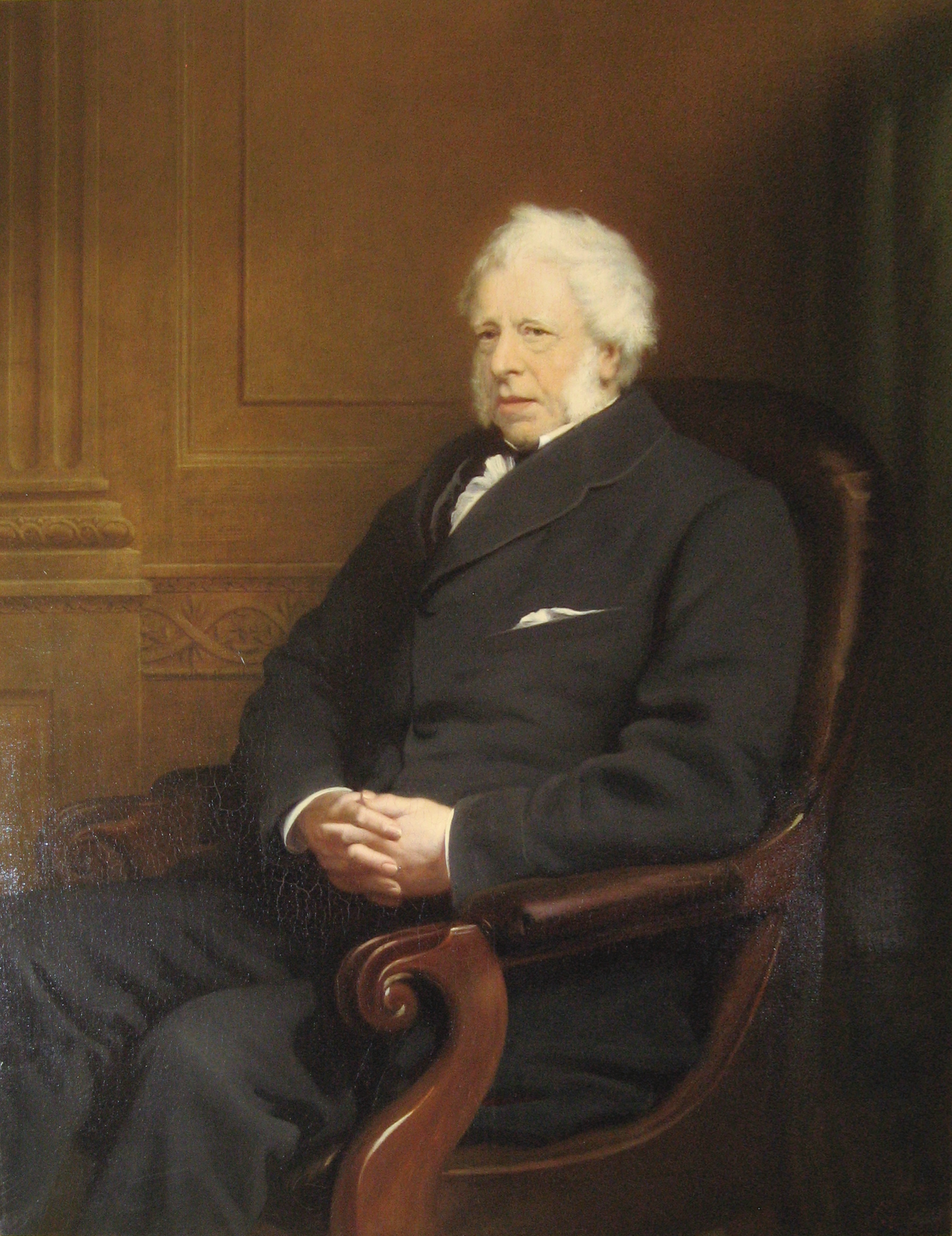 Painting of Robert Barbour (Boderworth Castle) by T.J. Hughes in Westminster College, Cambridge (England, UK). Painted c. 1885